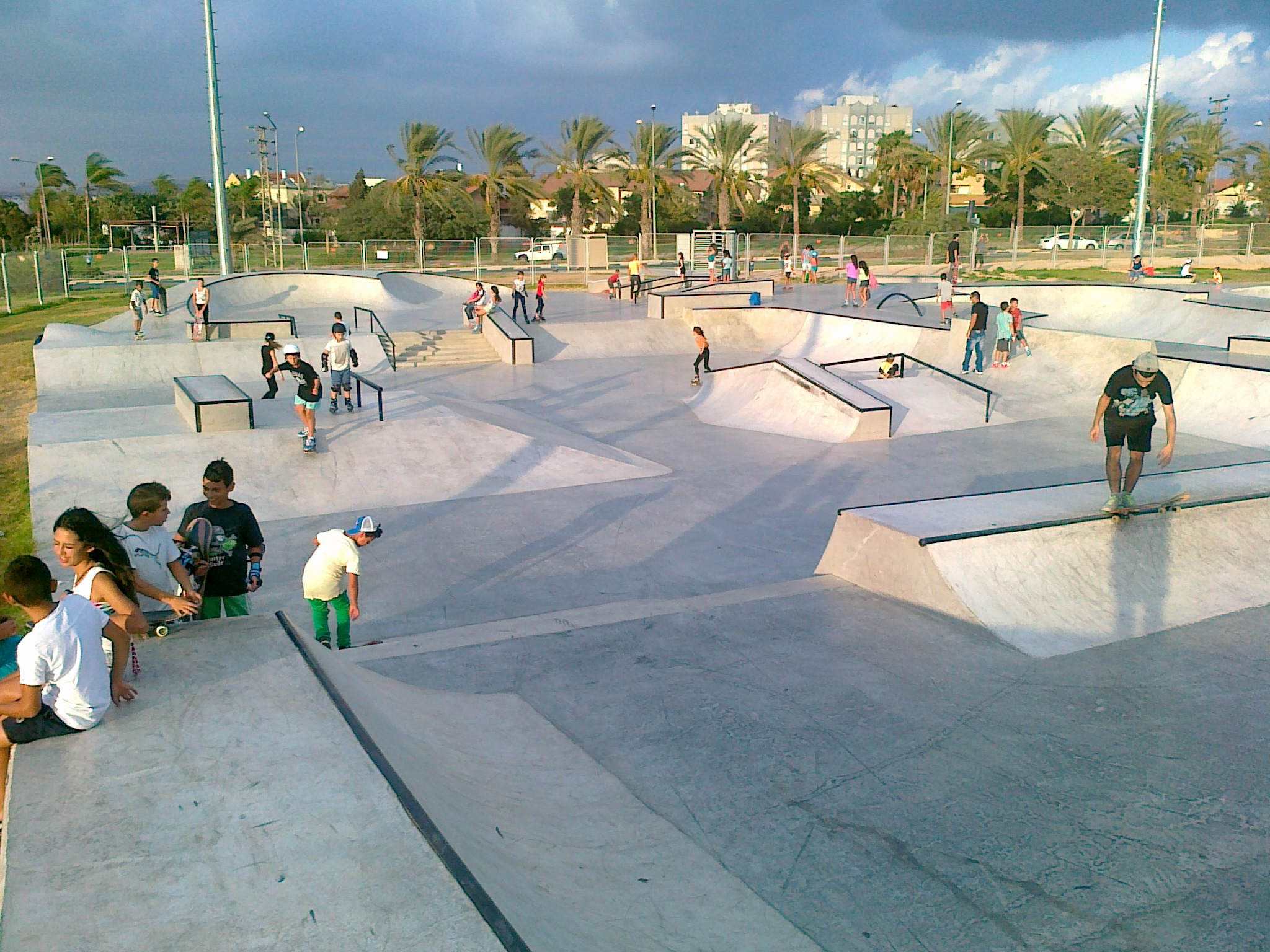 BSSP-Beer Sheva SkatePark, 2013